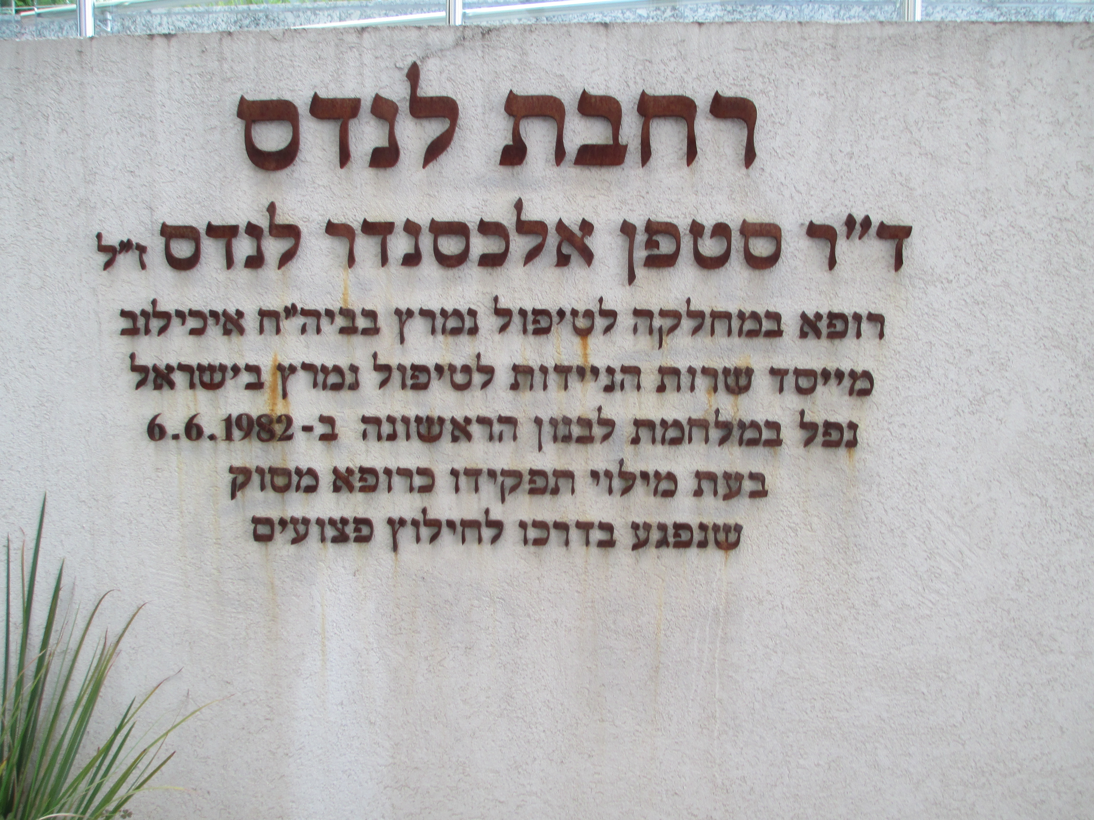 Dr. Stephan Landes memorial square